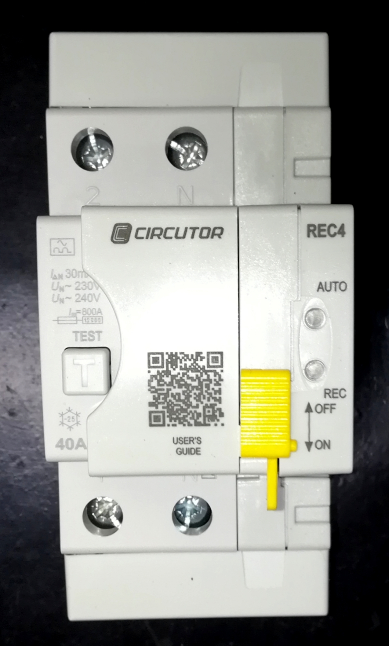 Differential switch equipped with a servomotor that performs a self rearm after being activated. This type of switch avoids the voyage to remote facilities (television repeaters for example) to perform a reset caused by transients.